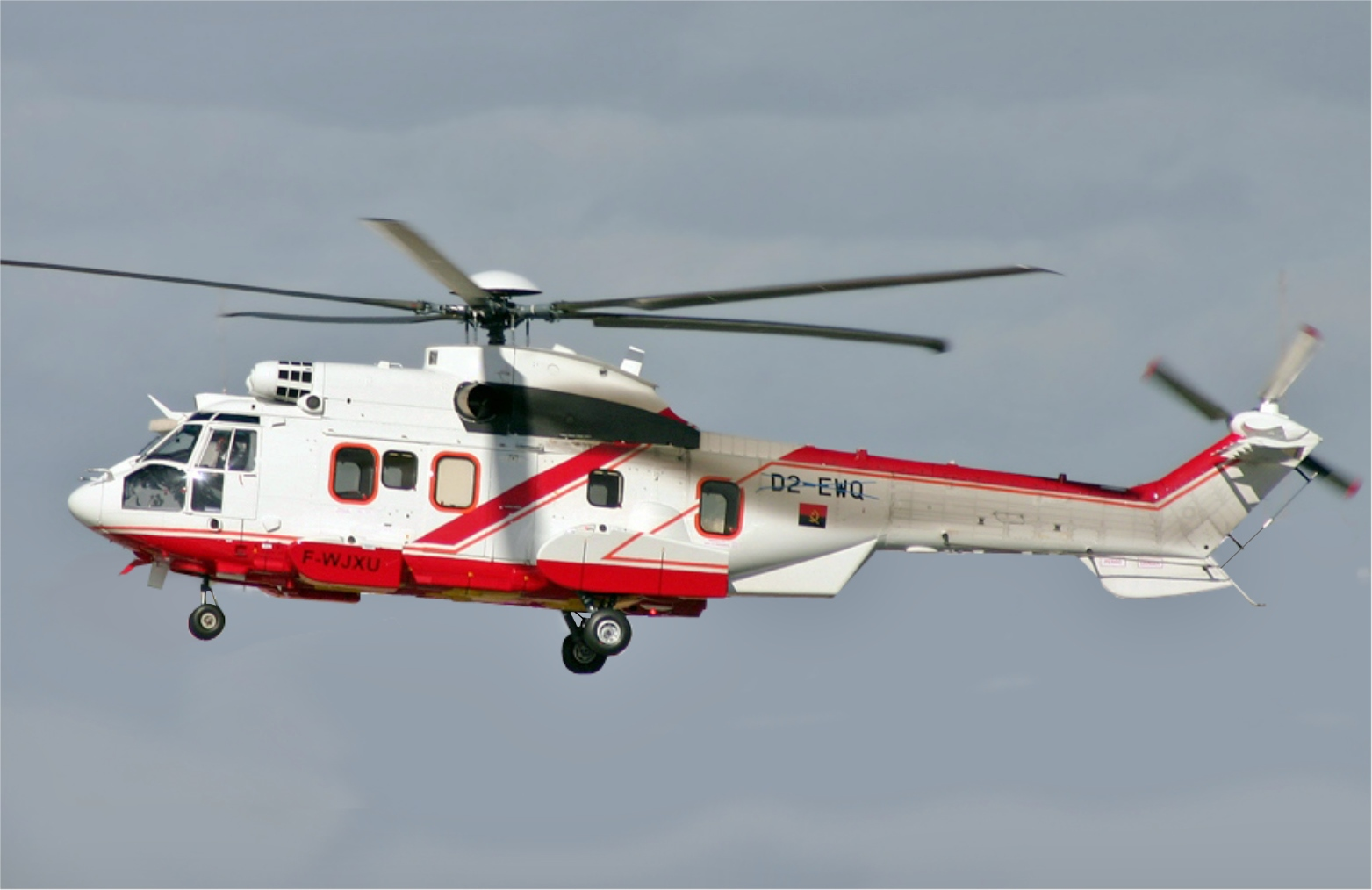 Eurocopter AS 332L2 Super Puma of the Angola Air Force